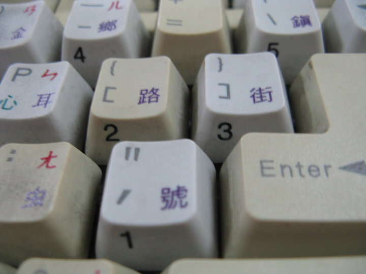 shot of keyboard with side print for Dayi inputing method.